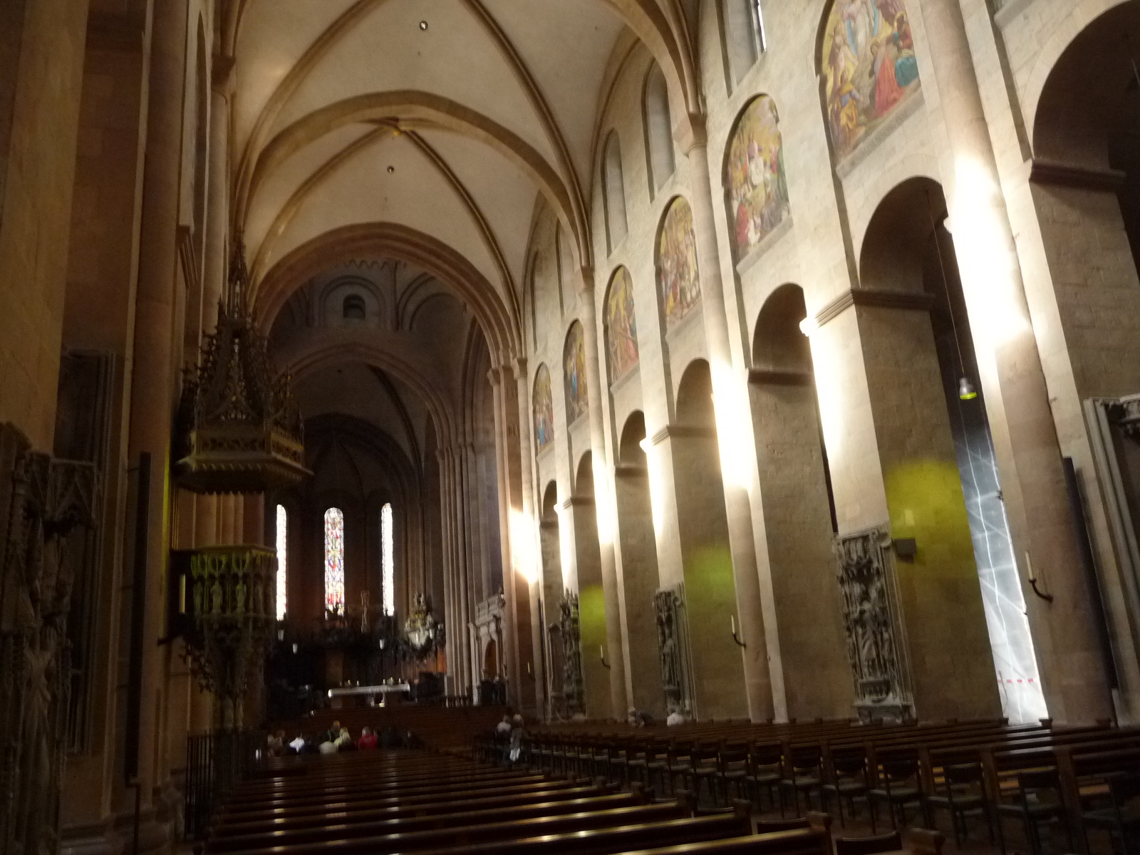 Mainzer Dom